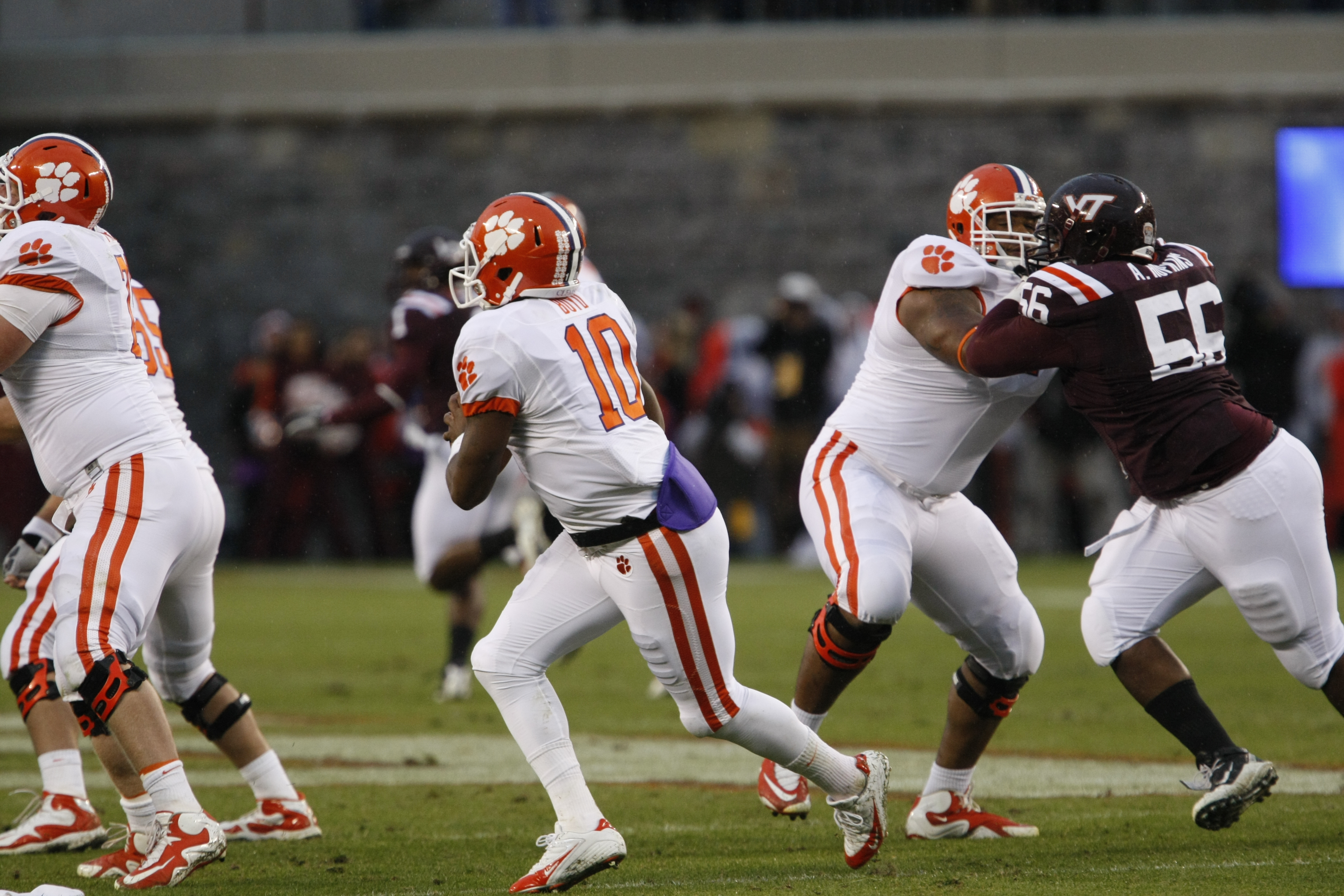 Clemson's Tajh Boyd attempts to pass against Virginia Tech, 2011.